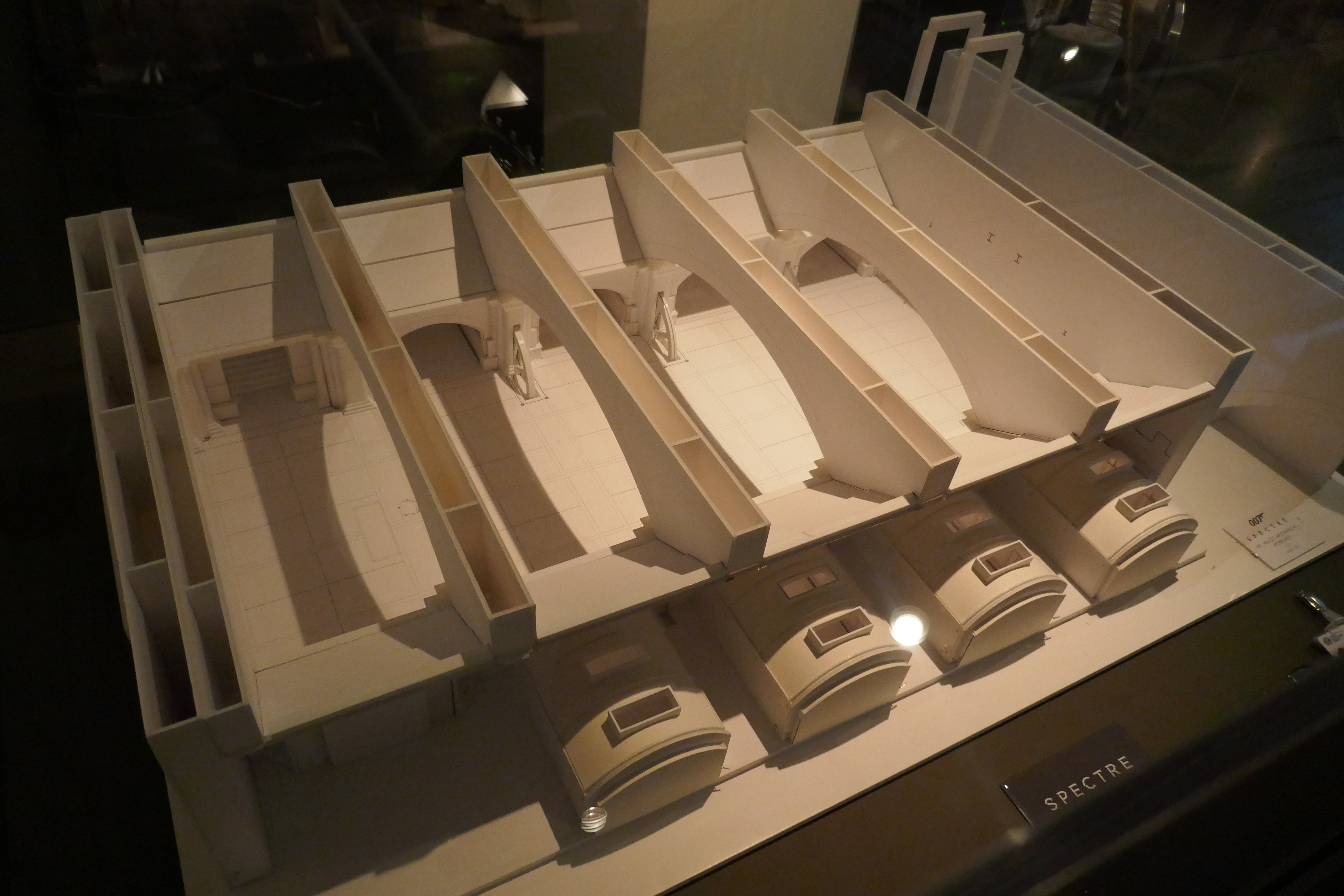 Q's Mechanical Workshop Model from the movie "Spectre" National Film Museum, London - Bond in Motion Exhibition (2017)